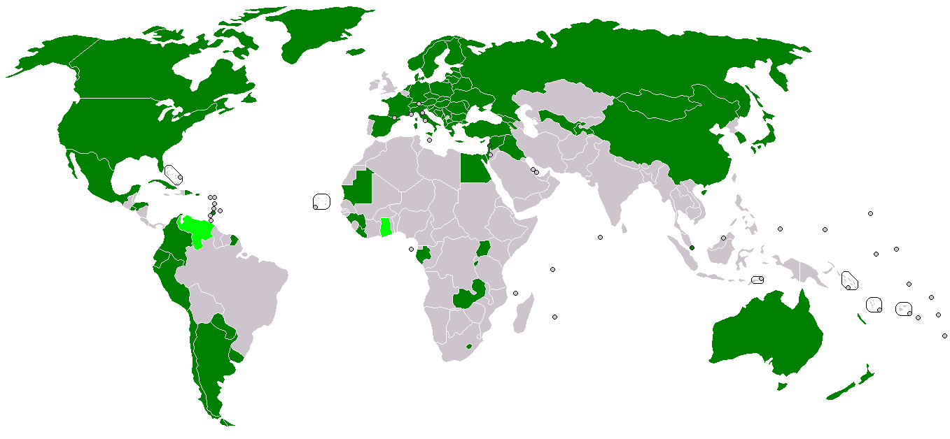 dark green - ratified; light green - signed, not yet ratified